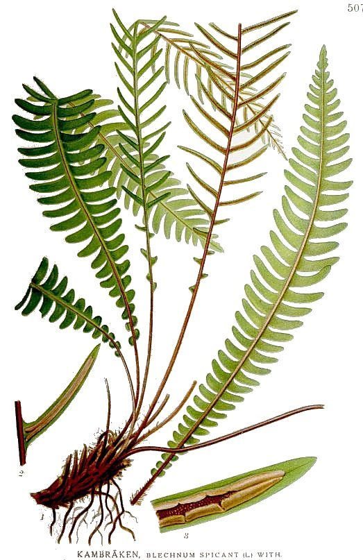 Original Description Kambräken, Blechnum spicant (L.) With.